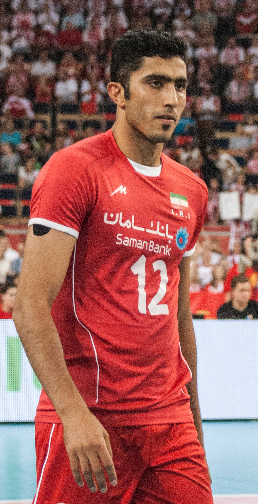 Mojtaba Mirzajanpour playing for Iran in 2014 FIVB Volleyball World Championship in Poland.